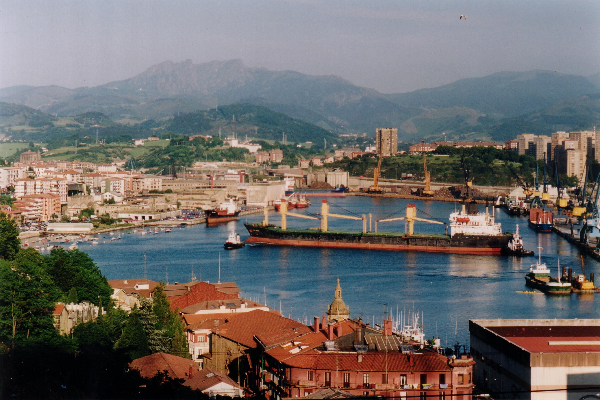 Photograph of the harbor of Pasaia, Gipuzkoa, Basque Country, Spain. (In the background are the mountains 'Peñas de Aia'.)